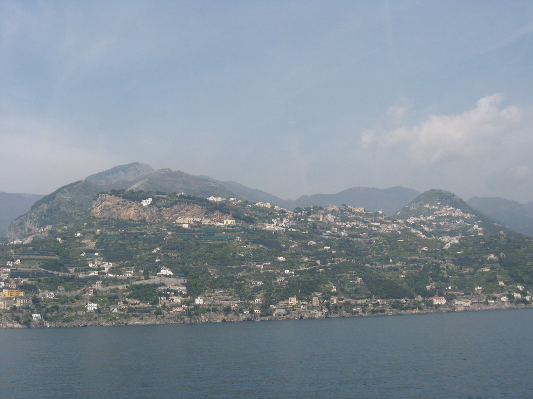 View of Ravello from the Sea